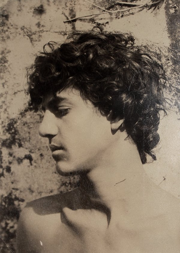 Wilhelm von Plüschow (1852-1930), Portrait of Vincenzo Galdi (1895 ca.). Catalogue #, 6012. Galdi become a photographer of the male and female nude himself, until 1907.